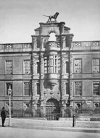 A Metropolitan Police Officer stands outside Northumberland House which was demolished in 1874 to make way for Northumberland Avenue. The 'Percy Lion' (heraldic crest of Percy family) on top of the building now resides at Syon Park in west London.